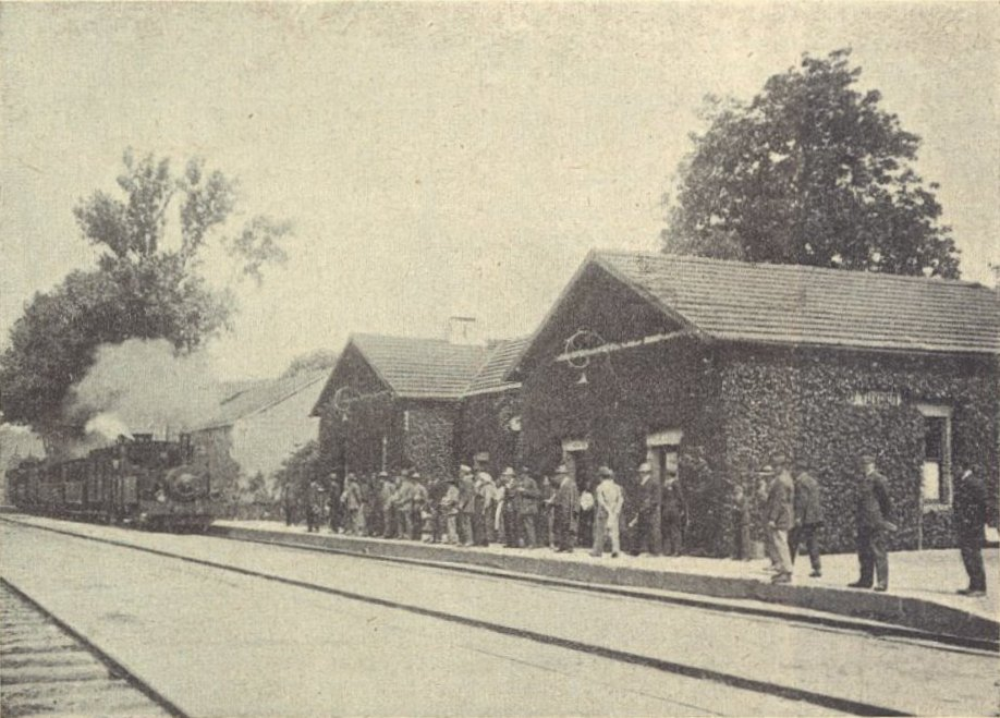 Old Santo Tirso Railway Station, in the Guimarães Railway, in Portugal. Note the original name of the station, "Santo Thyrso". This photograph was originally published in the Gazeta dos Caminhos de Ferro No. 1094, of the 16th July 1933, and scanned by the Hemeroteca Municipal de Lisboa.